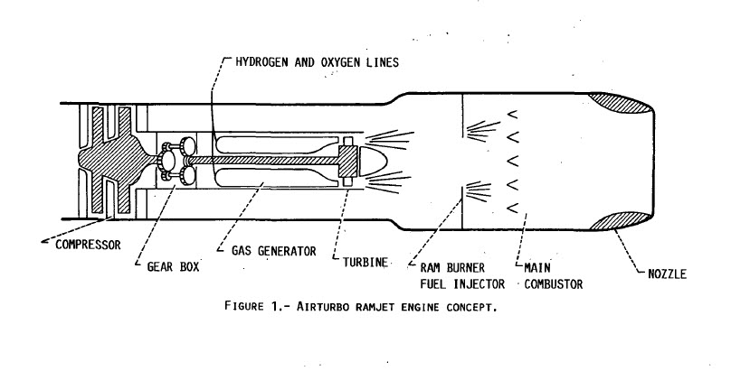 A schematic of an air turboramjet concept.